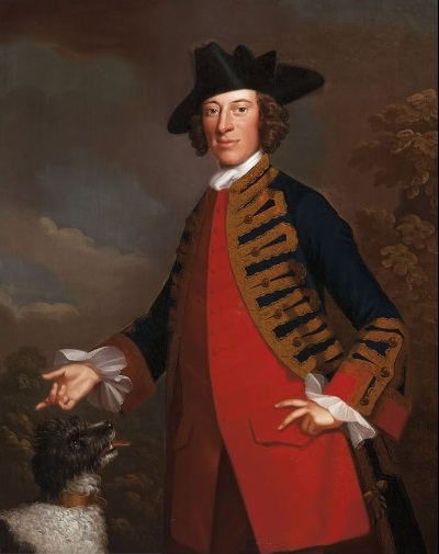 Staats Long Morris (British Army general and Parliament member)